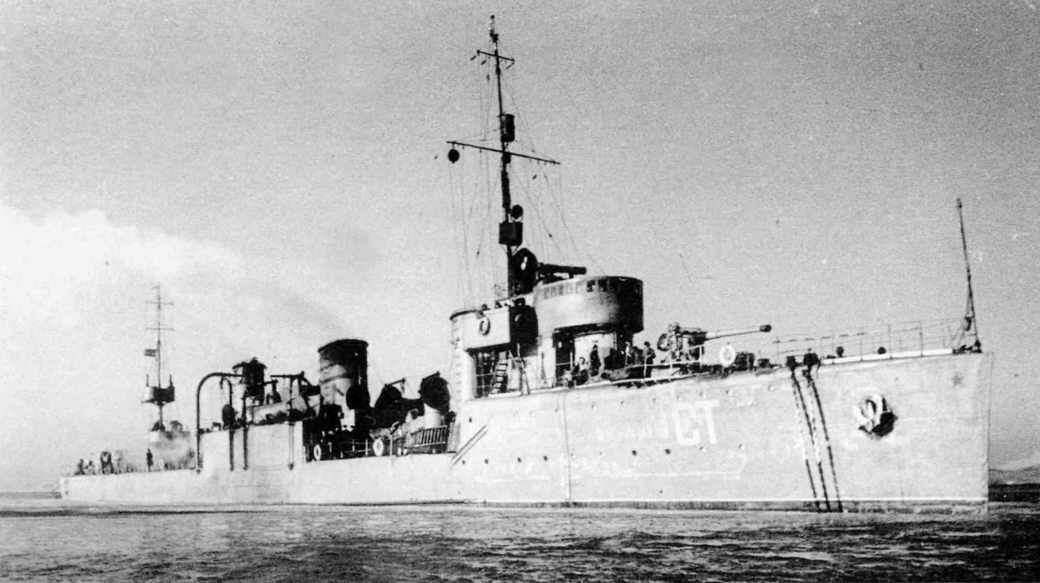 Soviet destroyer Stalin.